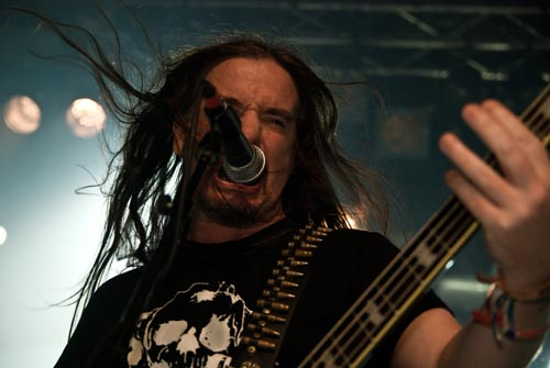 Jeff Walker of Carcass, live at Hole In The Sky, Bergen Metal Fest 2007